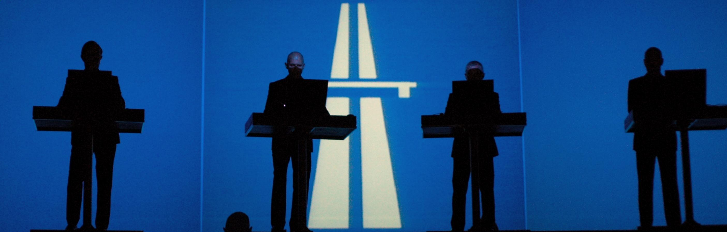 Kraftwerk, live in Ferrara (Italy), 06/07/2005